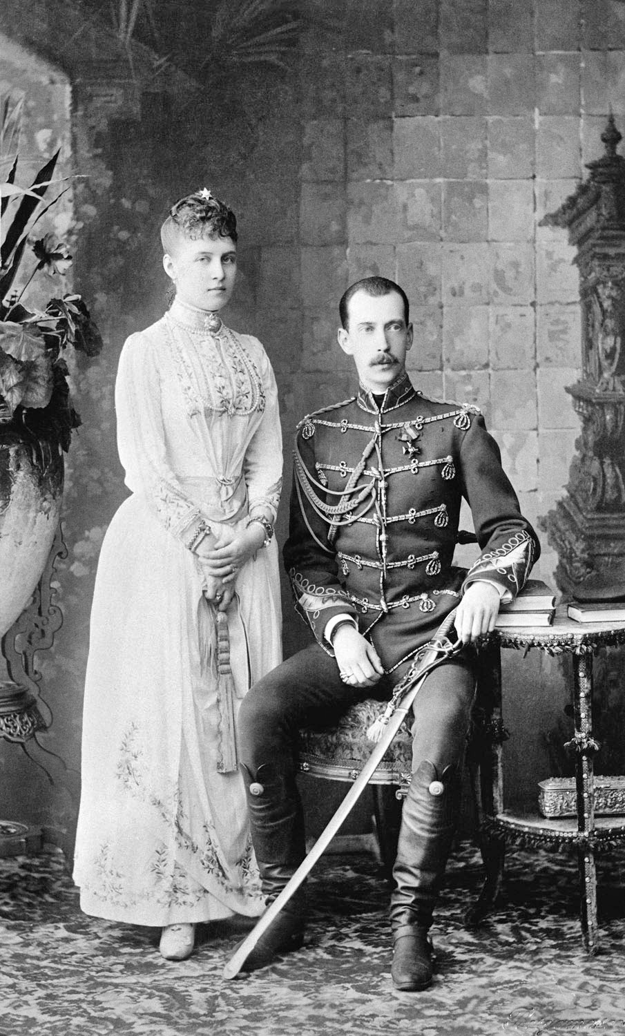 Grand Duke Paul Alexandrovitch Romanov and his wife Princess Alexandra of Greece